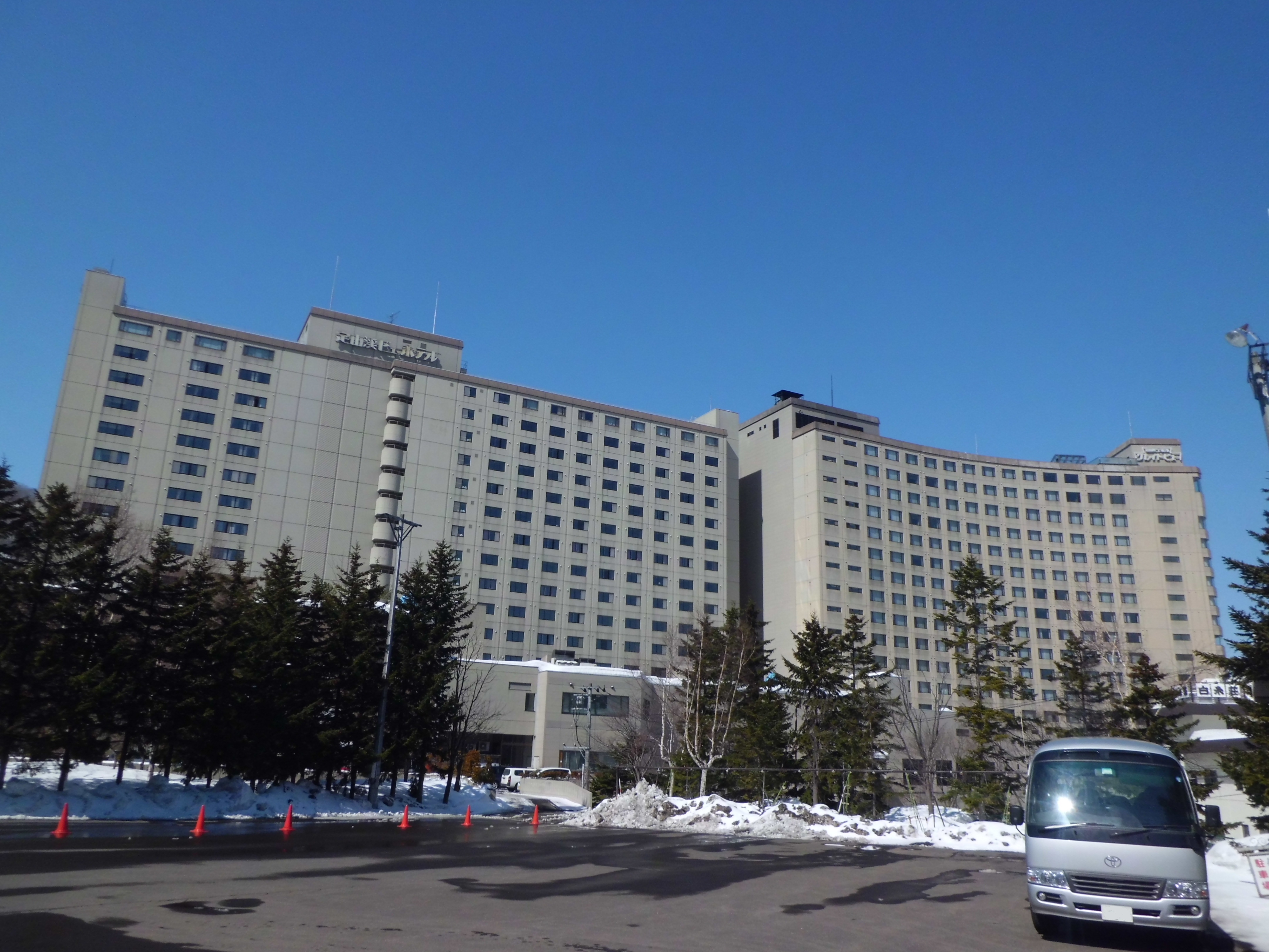 Jozankei View Hotel